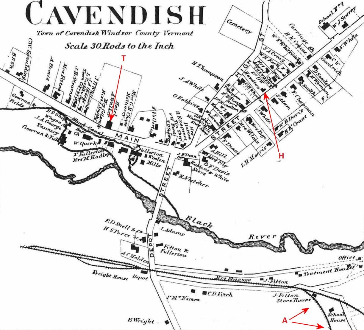 1869 Beers map of the village of Cavendish, Vermont (within the town of Cavendish, Vermont) annotated (red) to show locations related to Phineas Gage's accident in 1848: (A) the two possible accident sites; (T) site of Joseph Adams' tavern, where Gage recovered after the accident; (H) Dr. Harlow's house. Note map is dated 1869 -- twenty yrs after the accident -- by which time ownership of T and H had changed. Locations discussed in: Macmillan, Malcolm B. (2001). "John Martyn Harlow: Obscure Country Physician?". Journal of the History of the Neurosciences 10 (2): 149–162. Macmillan, Malcolm B. (2000). An Odd Kind of Fame: Stories of Phineas Gage. MIT Press. p.27,344 Macmillan, Malcolm B. (PGIP). "The Phineas Gage Information Page. Phineas Gage sites in Cavendish." The University of Akron. The graphical skill of the annotation leaves something to be desired, and if someone wants to go back to File:CavendishVermont 1869Map Beers.jpg and have another go, please do. The accident "locations" are not understood well enough to justify the precision implicit in the use of arrows -- a brace or something like that covering the general area (and, if truth be told, a bit of the area off the map to the south, if there's some way to indicate that) would be more honest.